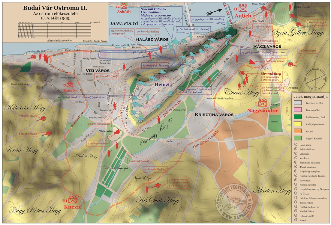 Situation at the Siege of Buda between May 5 - 16